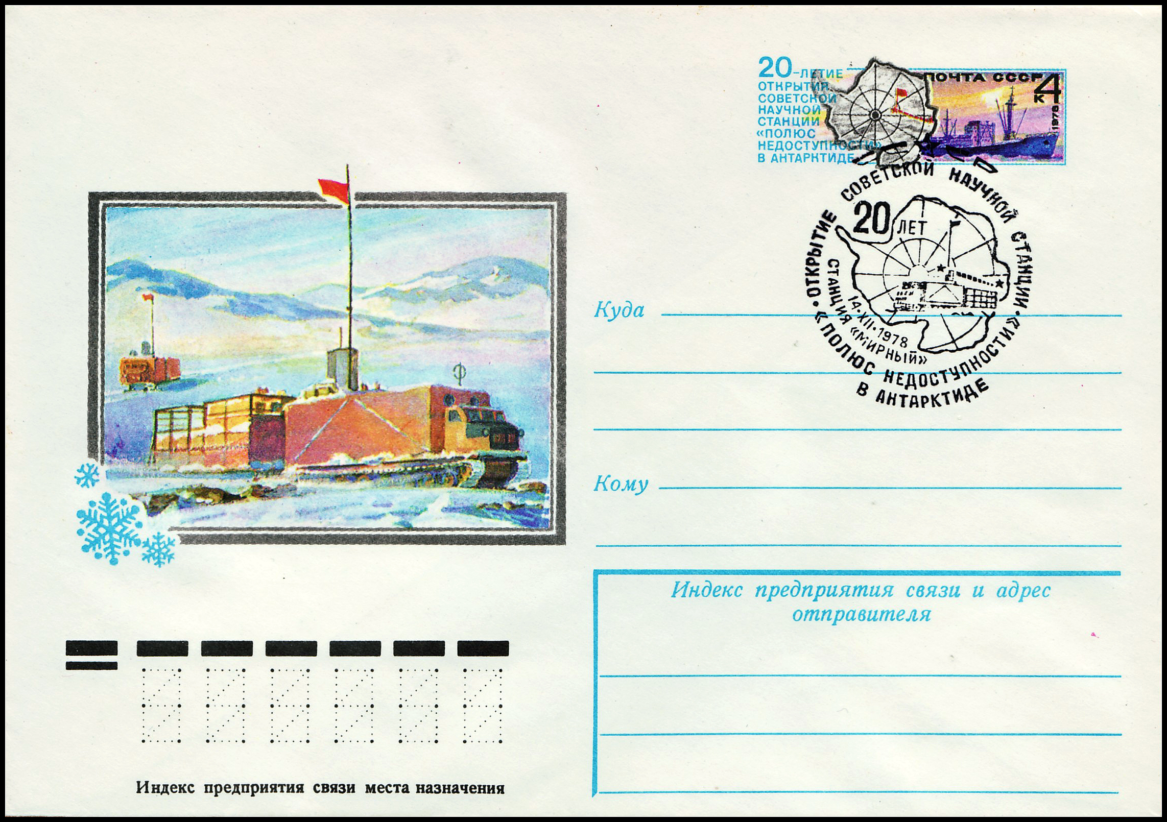 USSR, 1978. Envelope with commemorative stamp.. "20th anniversary of opening Soviet research station "Pole of Inaccessibility" in Antarctica" (Catalogue "Standard Collection" №41). Stamp: Antarctica Map with the route of the expedition; research ship "Ob". Illustration: sledge-tractor train in Antarctica. Painter Yu. Kosorukov. Special cancellation: "the 20th anniversary of the opening Soviet research station "Pole of Inaccessibility" in Antarctica" 14.12.1978 Station "Mirny" (Antarctica).